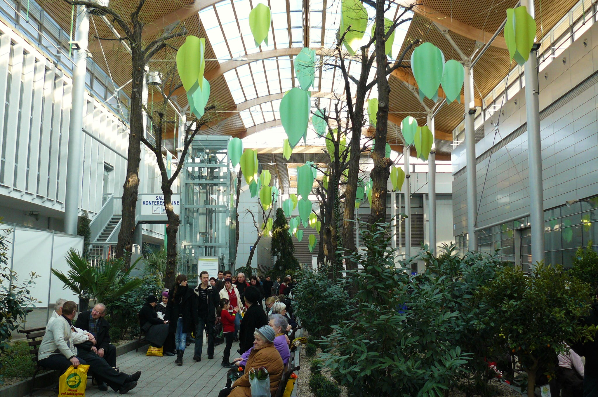 4Pac Pavilon of Int. Poznan Fair.